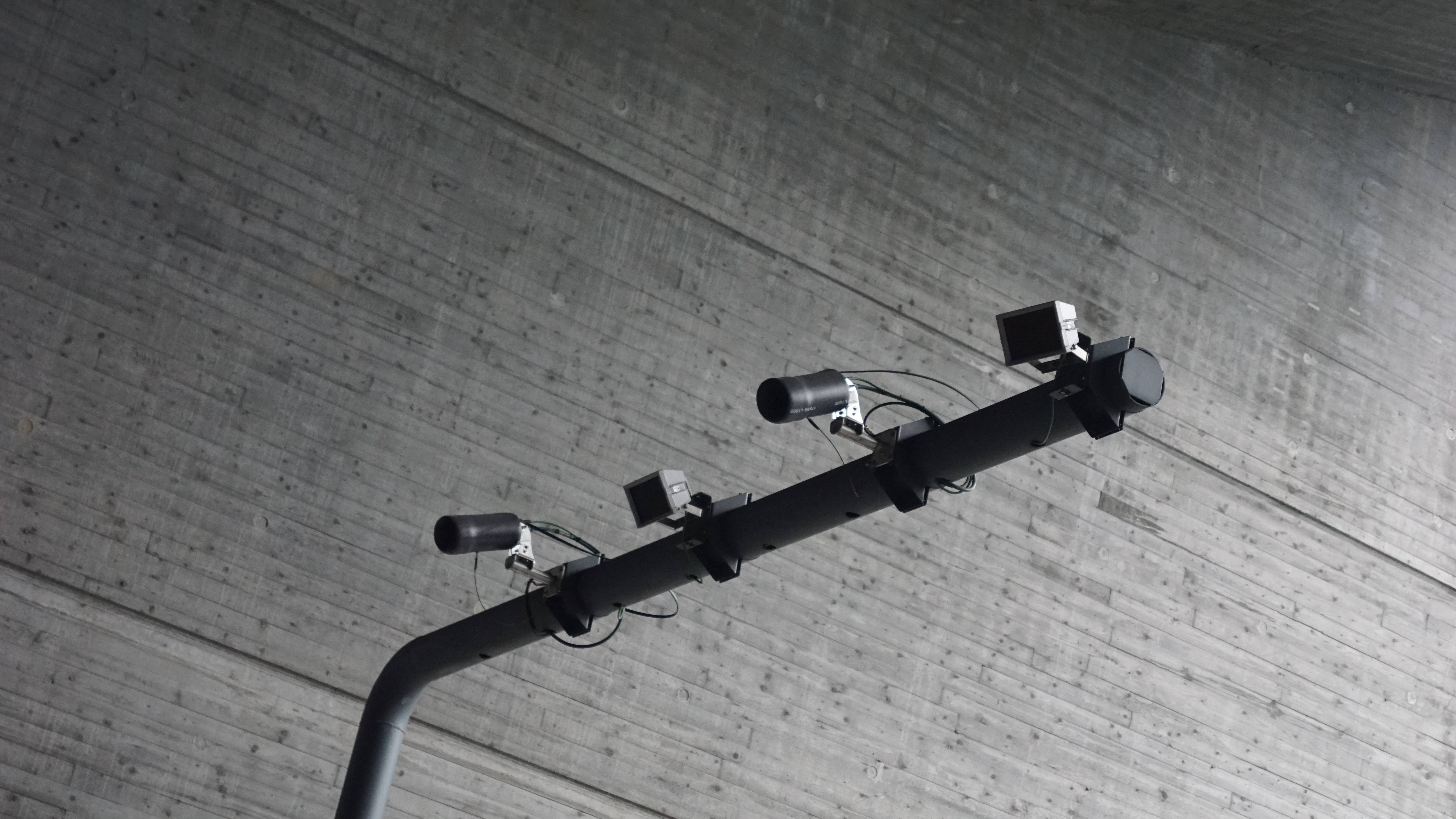 Automatic Number Plate Recognition(ANPR) equipment in the Butunnelen near the Hardangerbridge in Bjotveit, Norway, Used for toll collection.